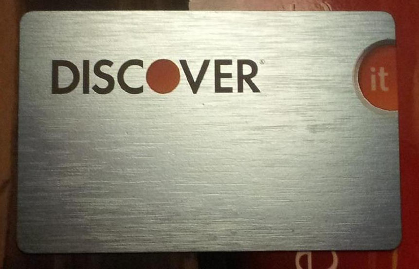 Picture of Discover "it" card, own work.